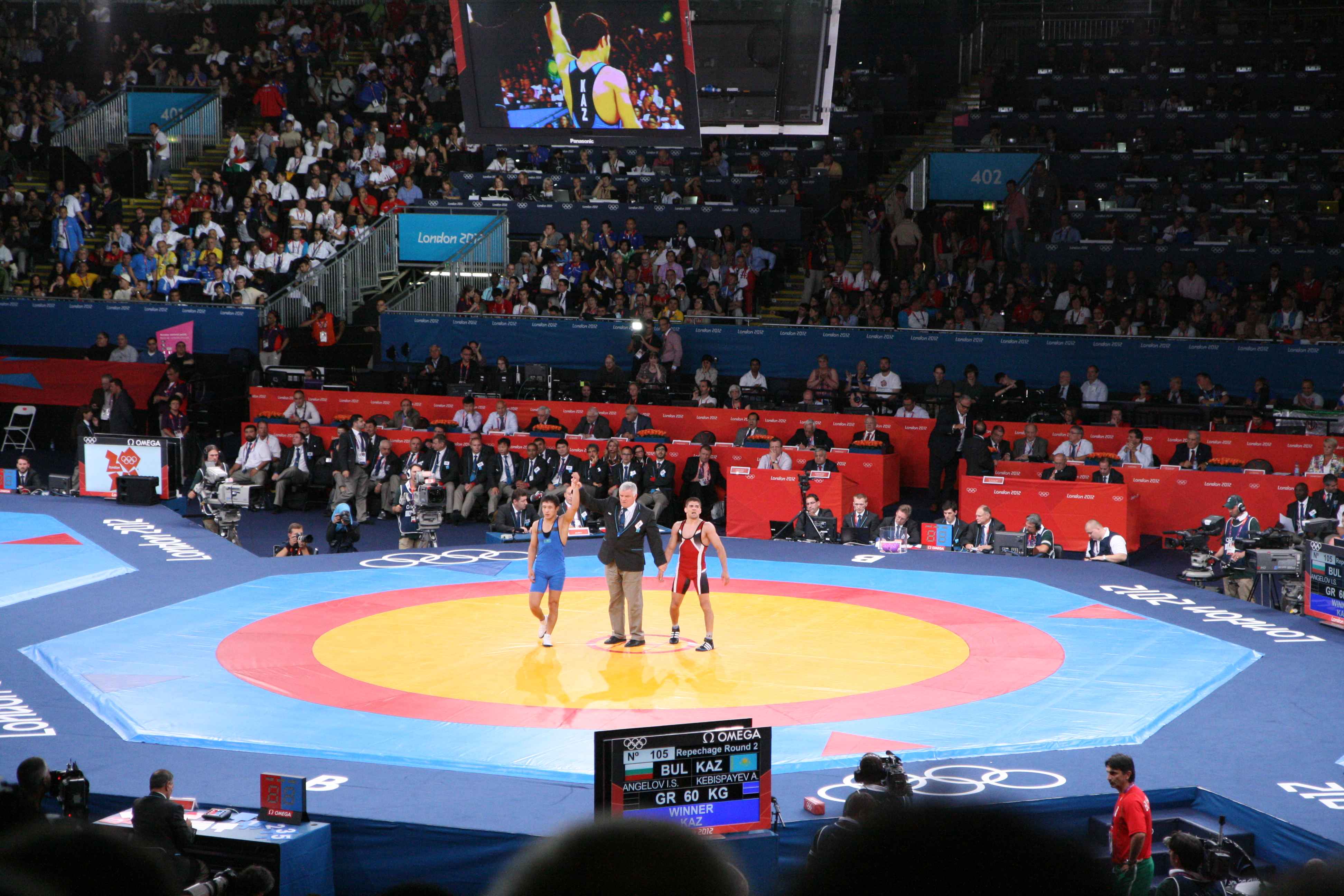 Wrestling at the 2012 Summer Olympics, Bulgaria versus Kazakh.